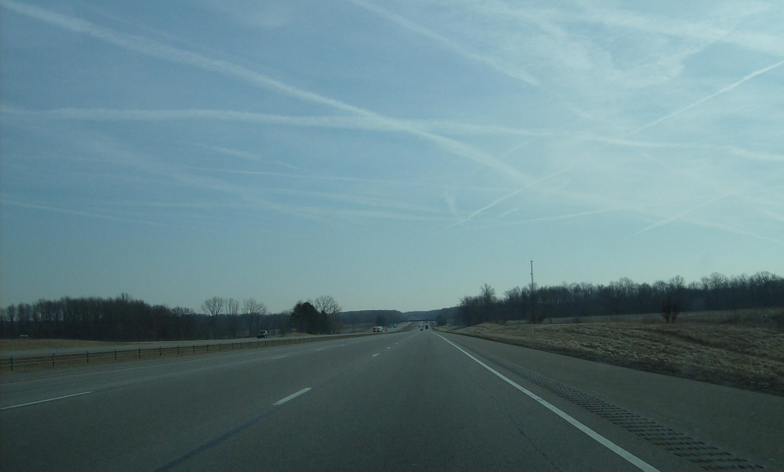 View of northbound Interstate 71 in Montgomery Township, Ashland County, Ohio, United States.